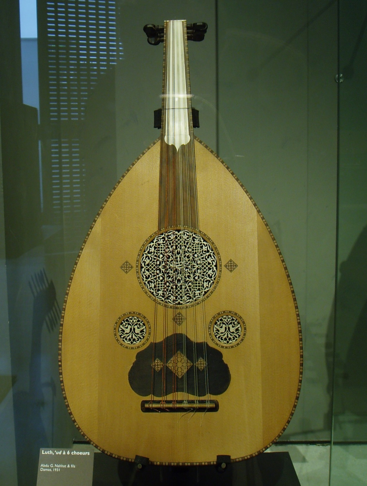 An oud with six two-stringed courses - Abdu G. Nahhat & fils, Damas, 1931 - Paris, musée de la musique. An oud is a short-necked lute, without frets.